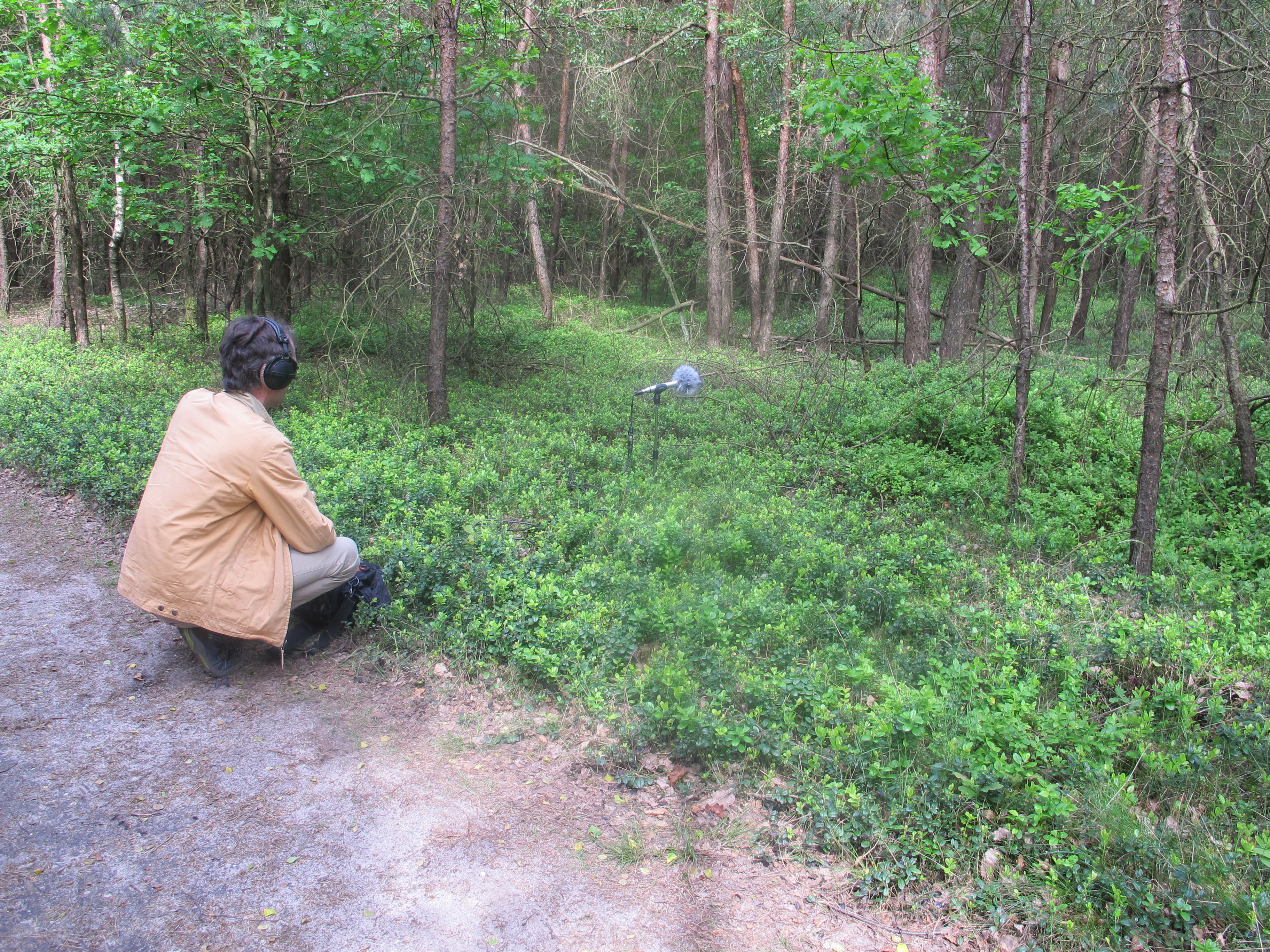 Sound recording workshop Wiki Loves Earth 2014 This is a photo or sound file made in Sallandse Heuvelrug National Park in the Netherlands, with the main subject of the file in the category: humans in nature